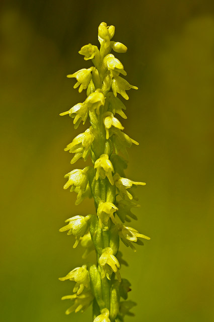 Musk Orchid (Herminium monorchis). Close up of part of a Musk Orchid stem - see 863976.